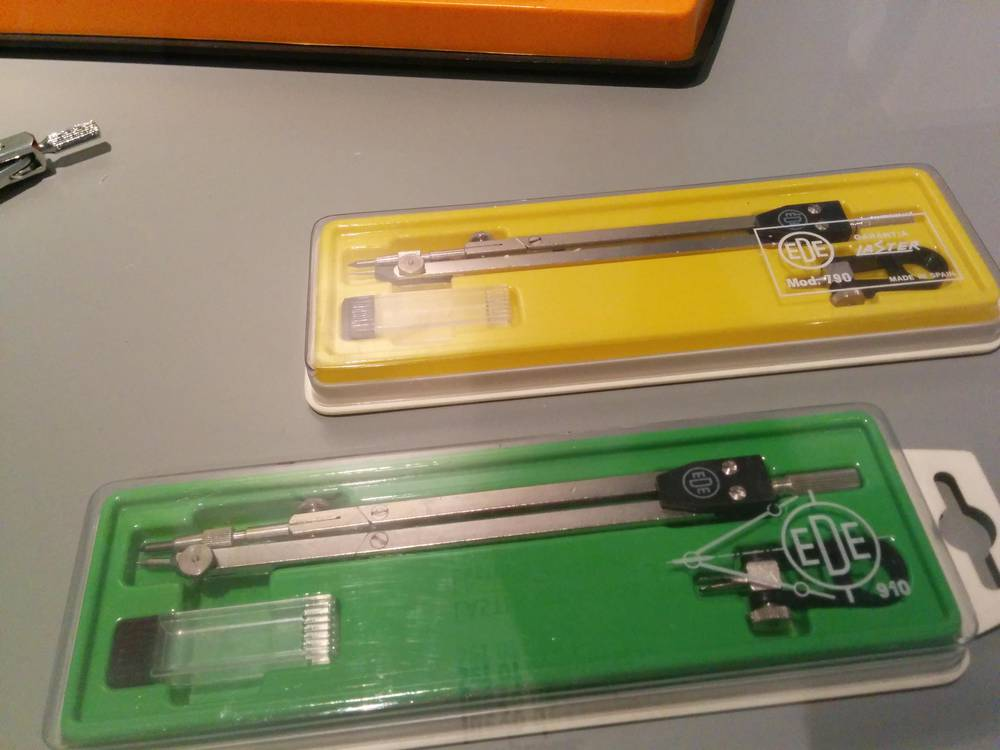 Compasses by EDE, a Basque company.